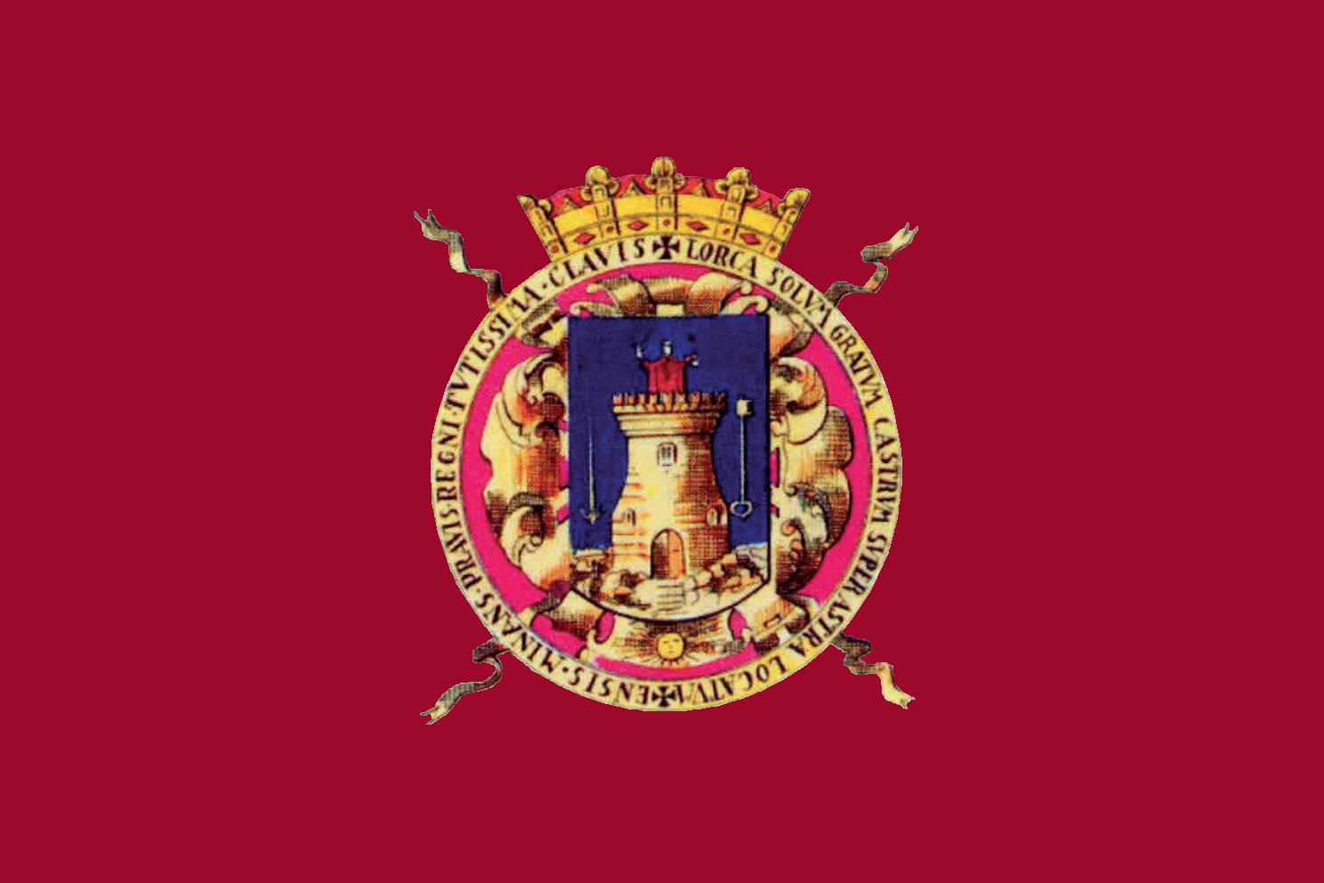 Flag of Lorca, in Murcia (Spain)